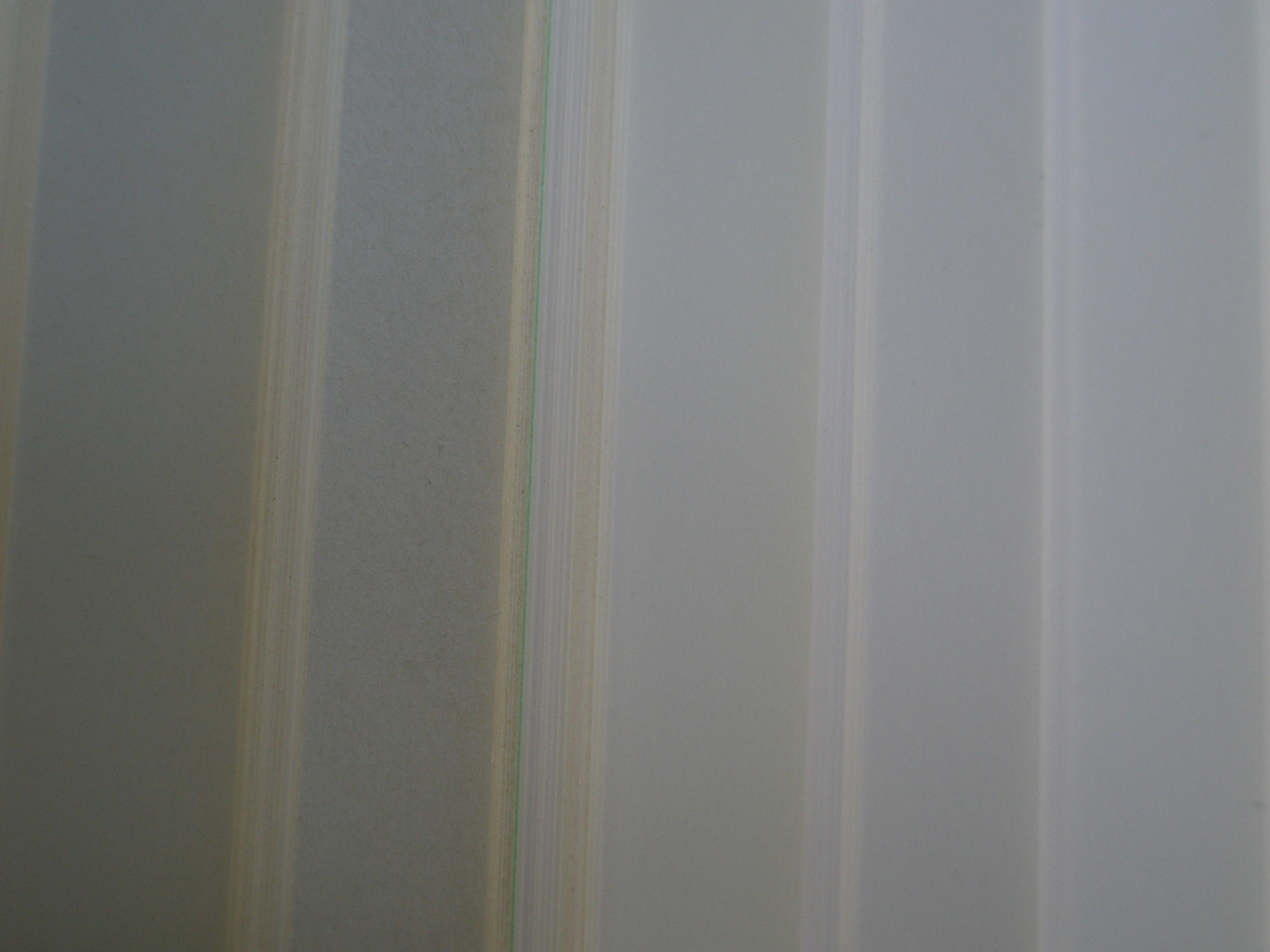 Coated paper from the coated paper samples of Oji Paper Co., LTD. TOPKOTE GLOSS(R) 127g/m2 OK coat L green 100 69.9g/m2 OK TOPKOTE DULL 157g/m2 WHITE-A-MAT 81.4g/m2 NEW AGE 81.4g/m2